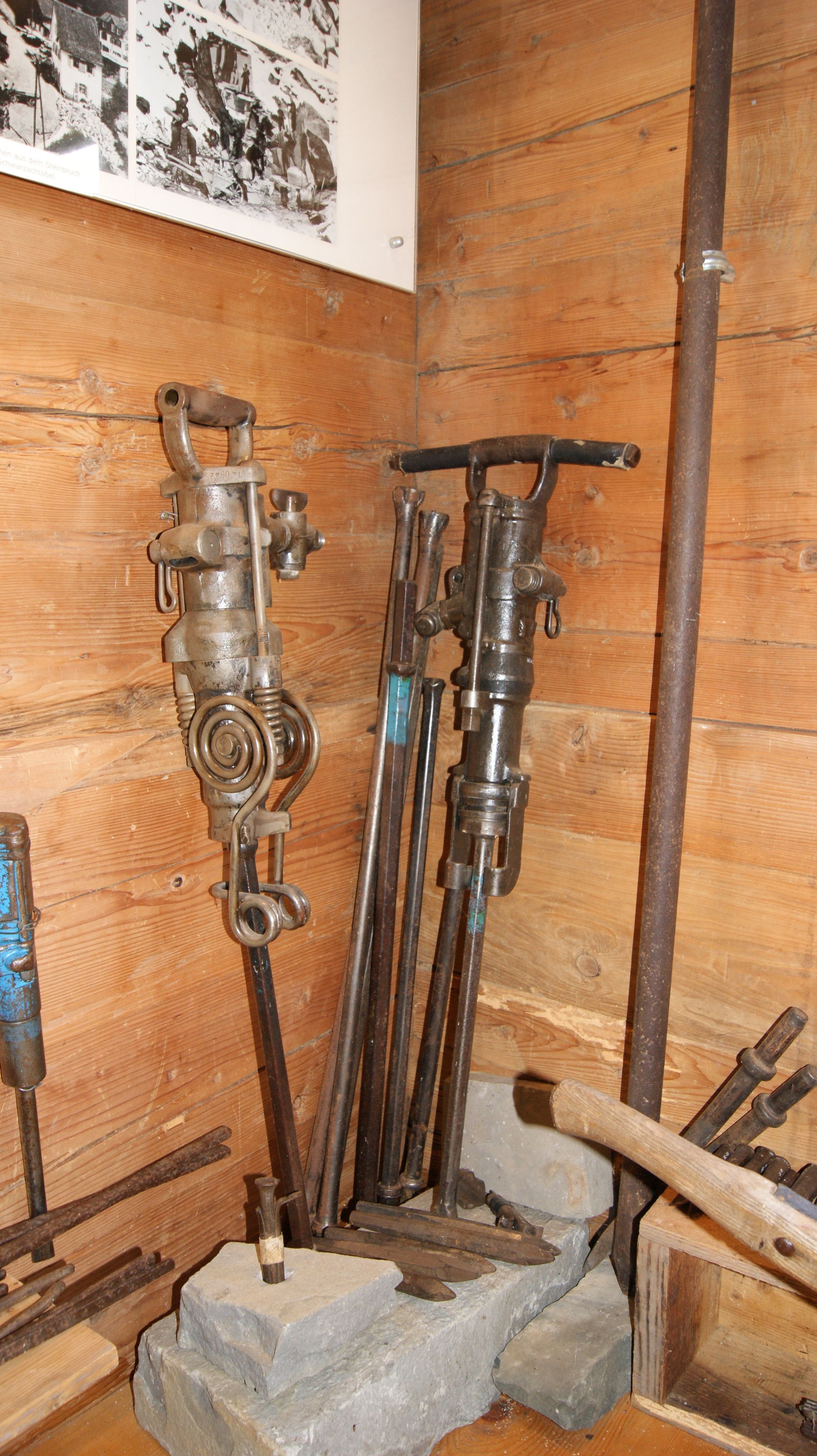 Museum of local history in Schwarzach in Vorarlberg, Austria. Pneumatic hammer.